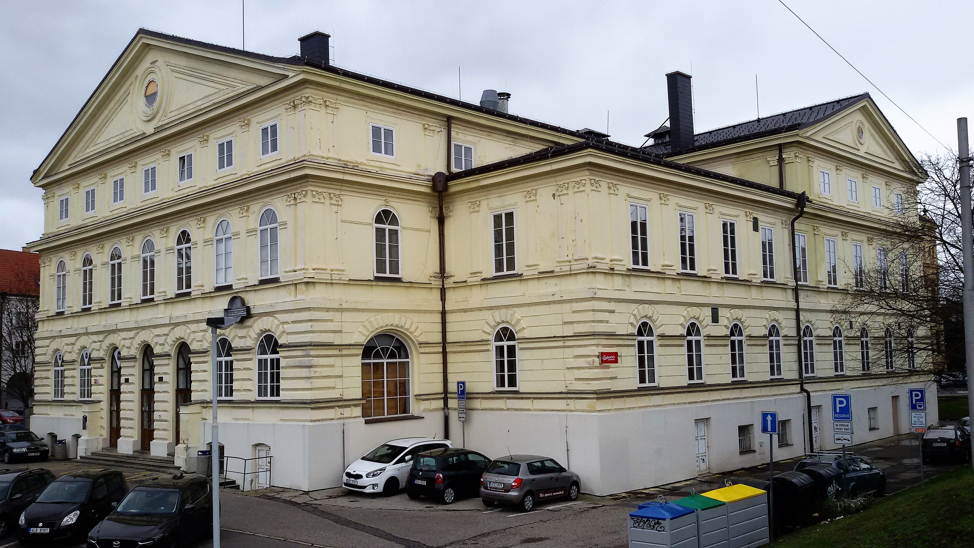 Slávie Cultural House, originally a German House, was built according to the design of architect Vojtech Ignác Ullmann. České Budějovice, South Bohemian Region, Czechia.